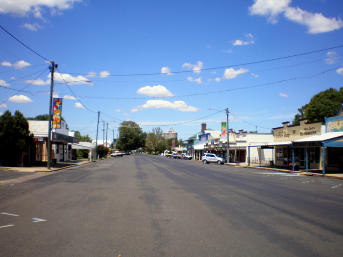 Allora